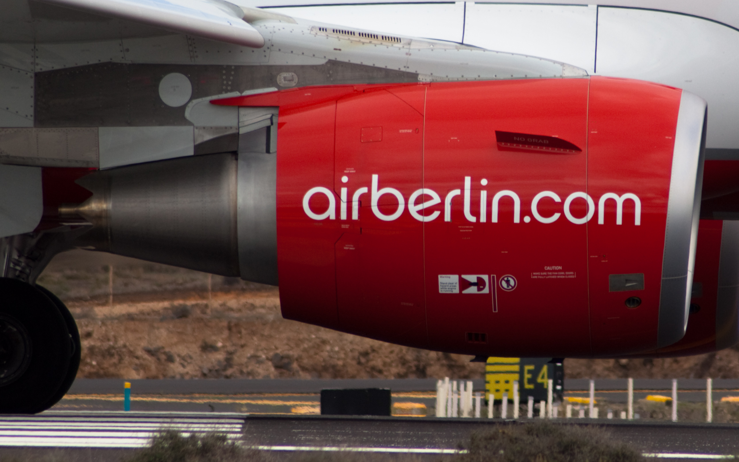 A very new CFM56 engine, aircraft delivered on 22/12/08 with photo taken on 24/01/09.